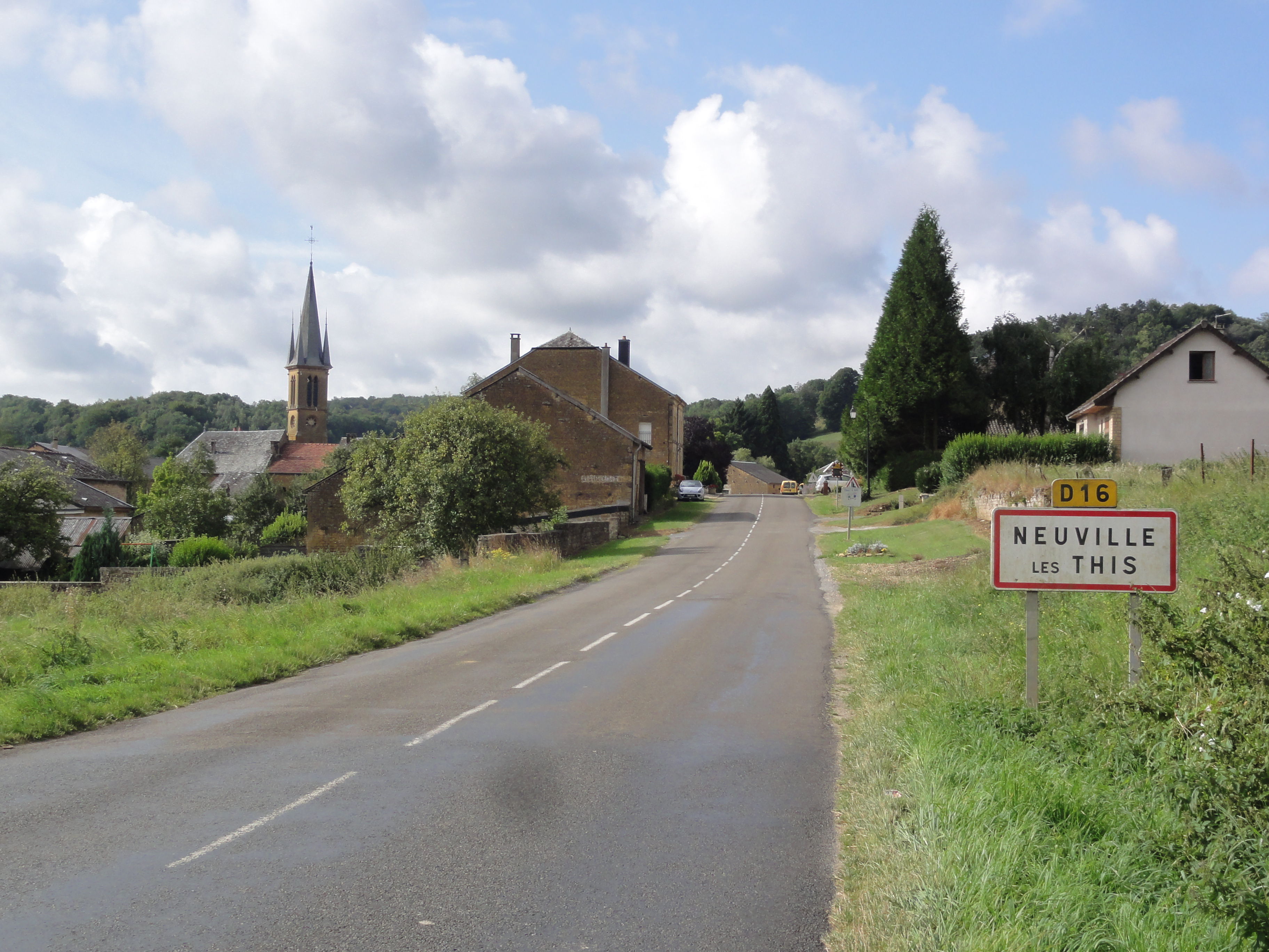 Neuville-lès-This (Ardennes) city limit sign